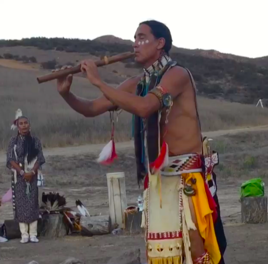 A member of Chumash Barbareño-Ventureño Band of Mission Indians at Satwiwa, Newbury Park, California.